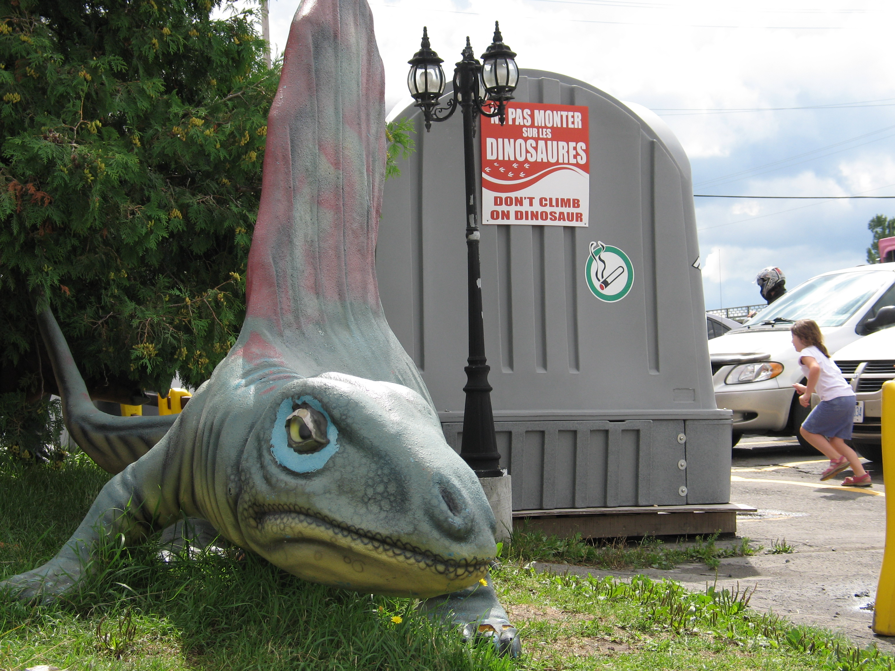 One of 70 replicas of prehistorical animals displayed at the Le Madrid restaurant, in Saint-Léonard-d'Aston, Québec.